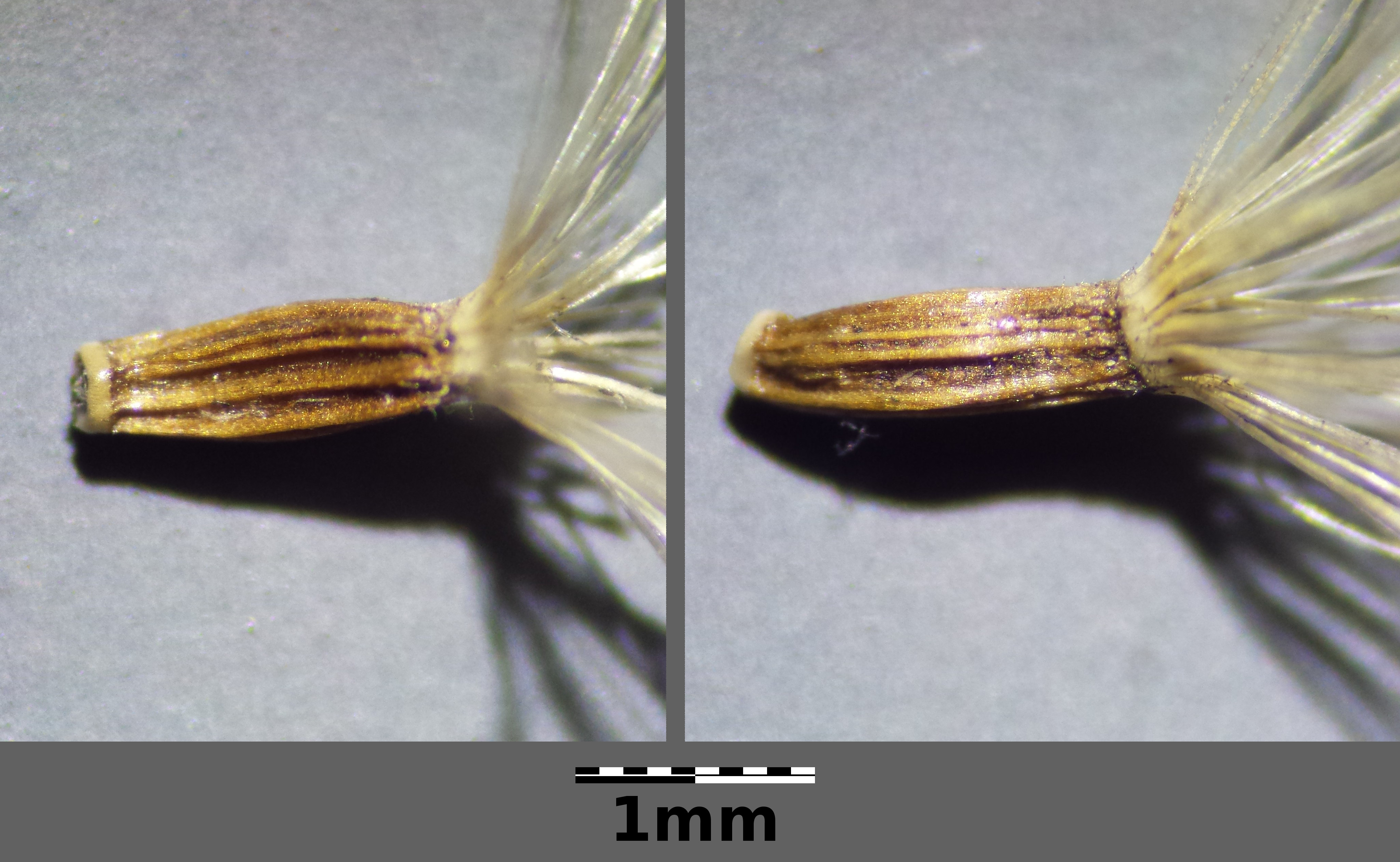 Achenes Taxonym: Inula ensifolia ss Fischer et al. EfÖLS 2008 ISBN 978-3-85474-187-9 Location: Alte Schanzen, object XII, Floridsdorf, Vienna - ca. 225 m a.s.l. (leg. 2014-09-19) Habitat: dry grassland